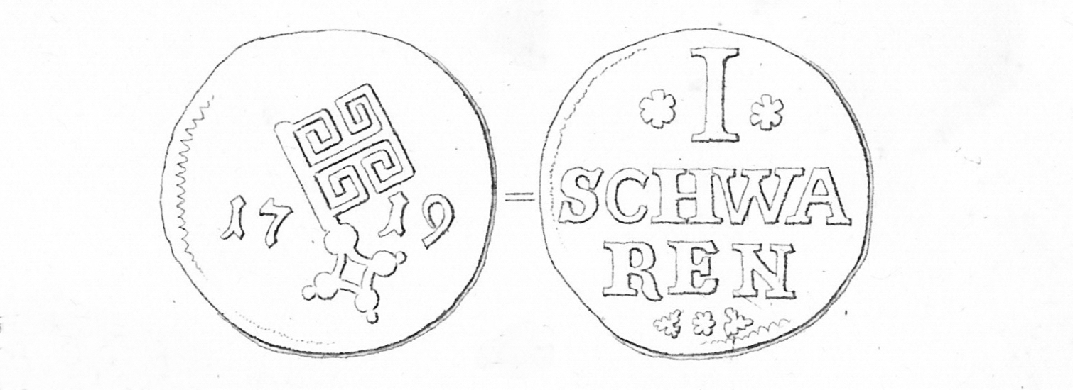 Schwaren, Kupfer, Bremen, 1719